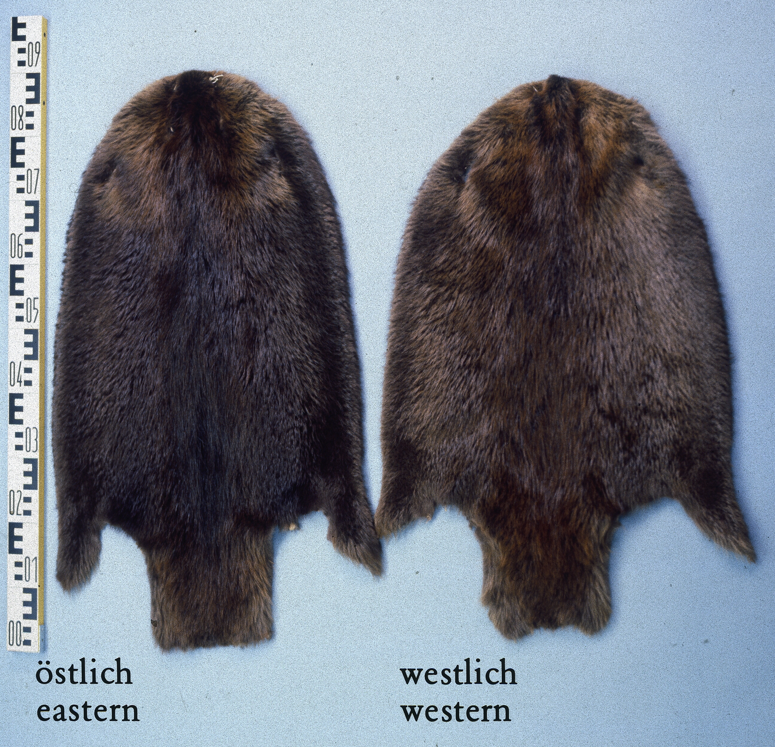 Canadian beaver fur skins (Castor fiber, canadensis), left eastern, right western Canada. Fur skin collection, Bundes-Pelzfachschule, Frankfurt/Main, Germany